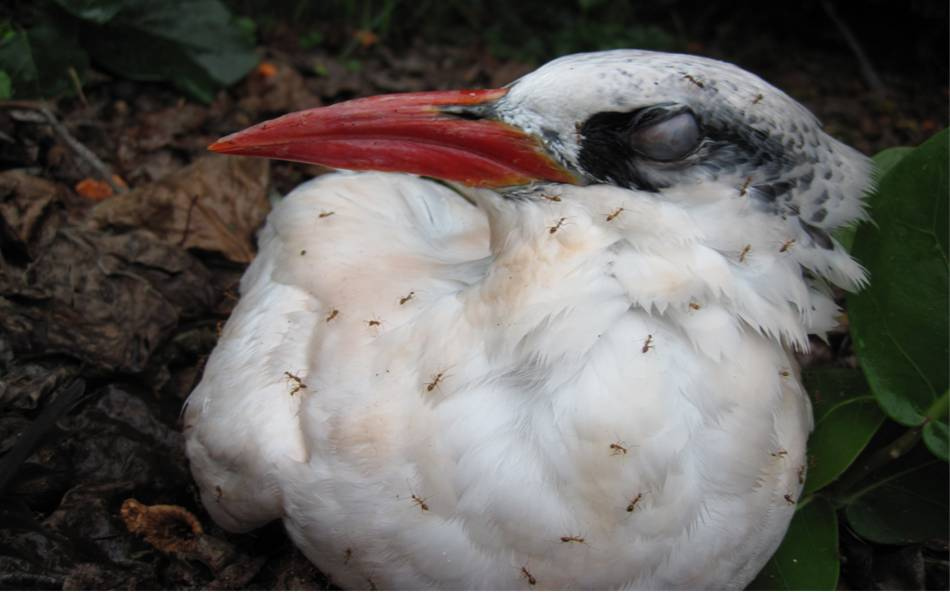 Red-tailed tropic bird (Phaethon rubricauda) swarmed by yellow crazy ants (Anoplolepis gracilipes), Johnston Atoll